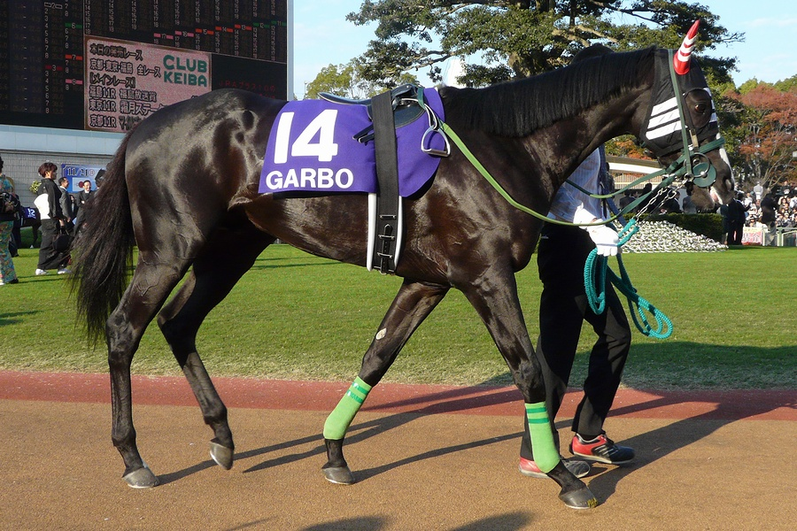 Garbo20101121